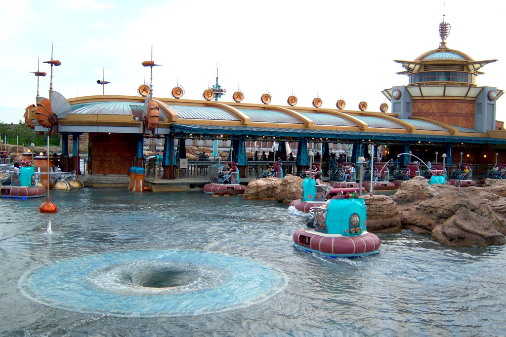 Aquatopia - a trackless ride made by Walt Disney Imagineering. Located in Port Discovery area in Tokyo Disney Sea.